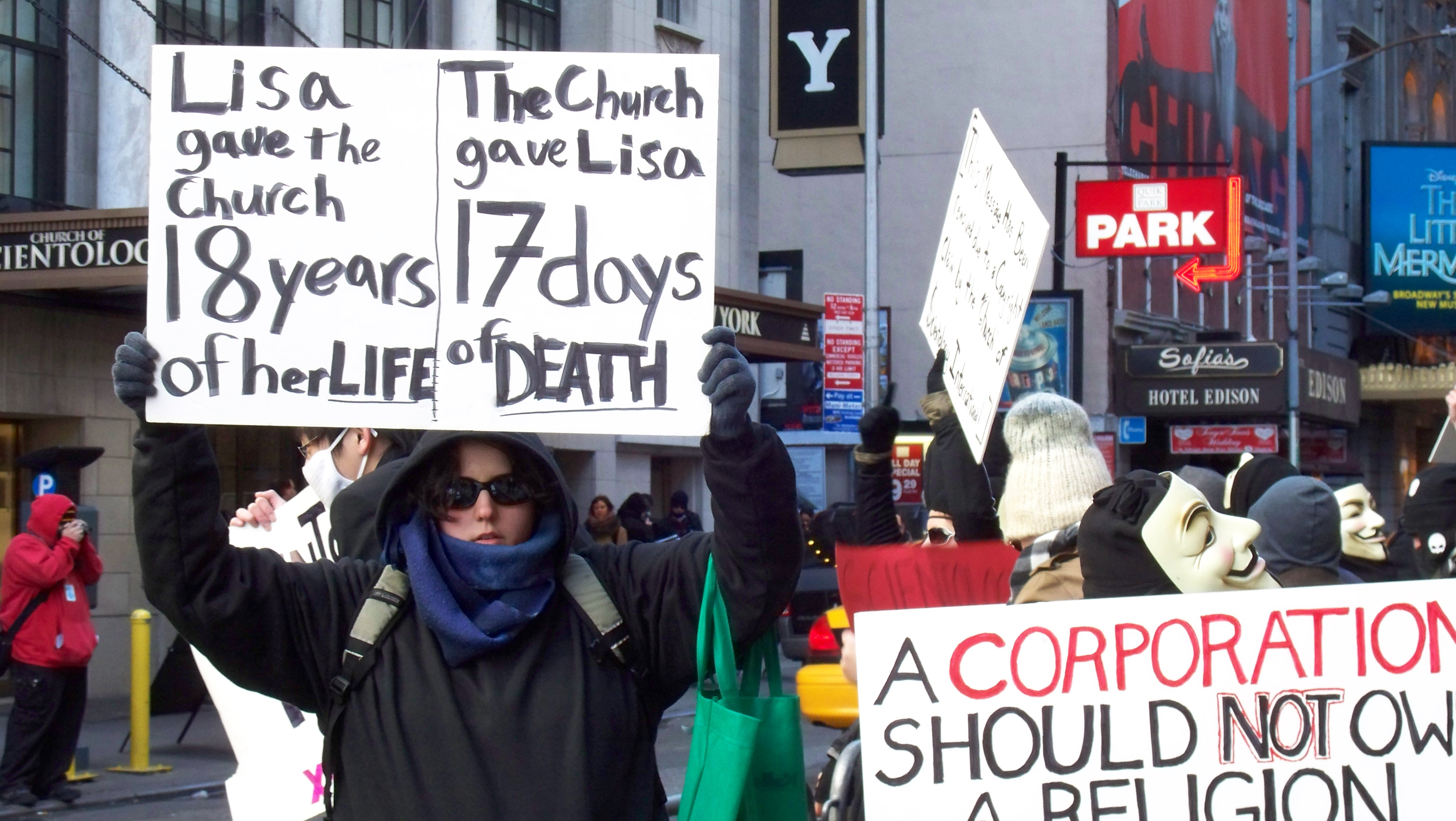 Anti-Scientology protest February 10 in New York City in front of the Church of Scientology on West 46th Street.